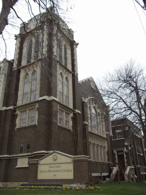 Oaklawn Methodist Church